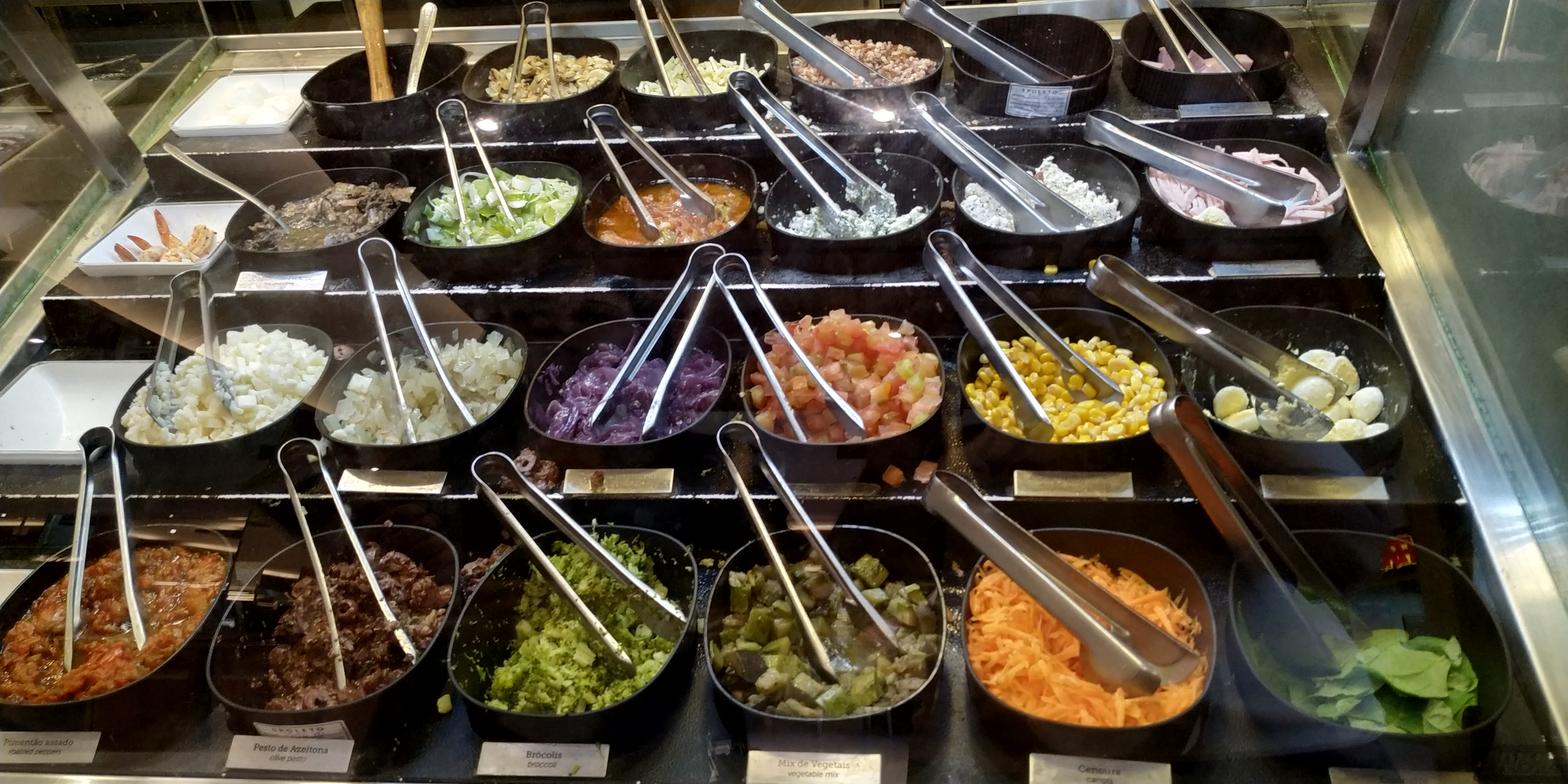 Glass display with ingredientes for personalized dishes from Spoleto. Photo taken in a franchises in Mogi das Cruzes.